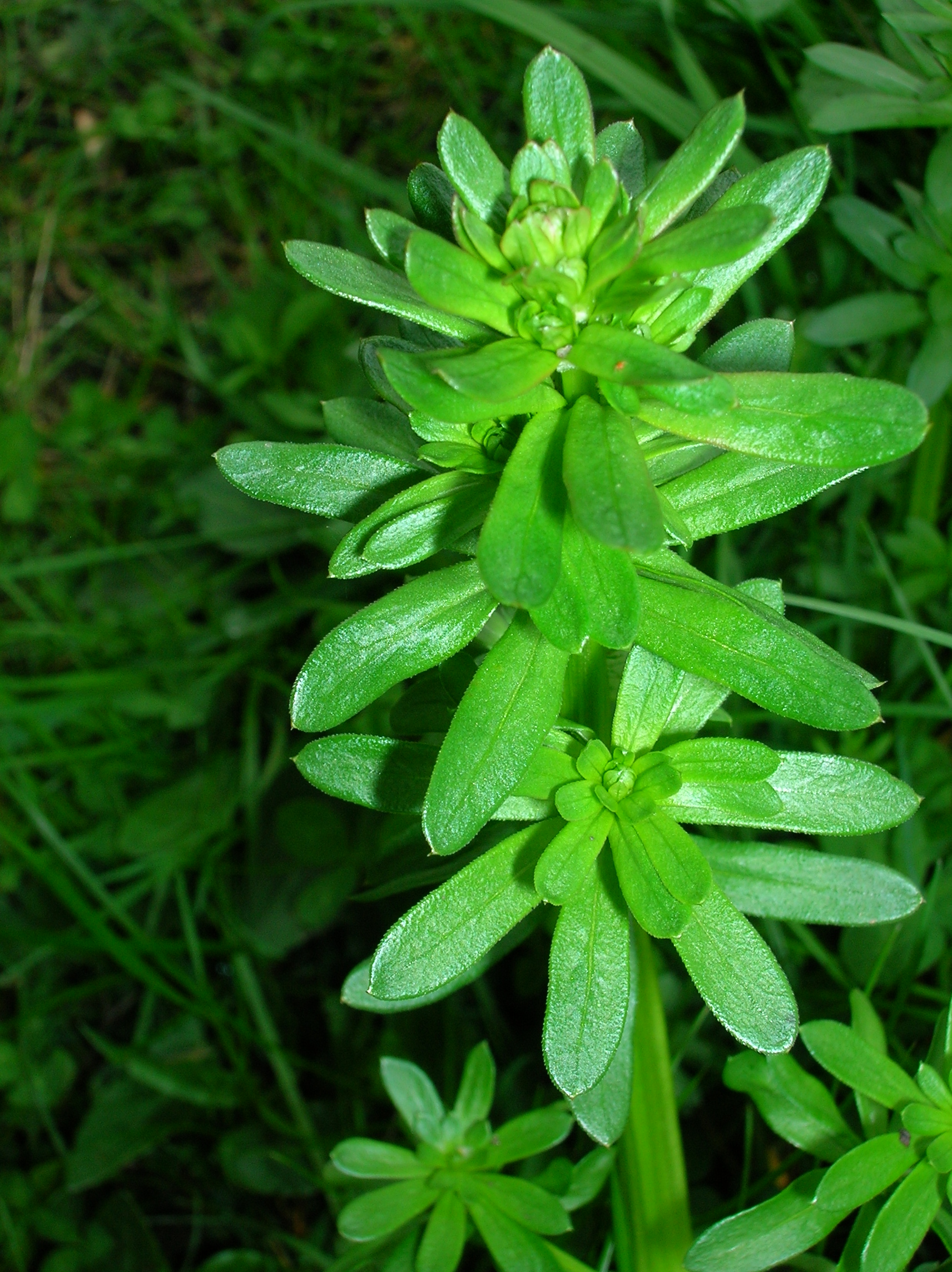 Galium album, the Upright Hedge Bedstraw, Eglinton, North Ayrshire, Scotland